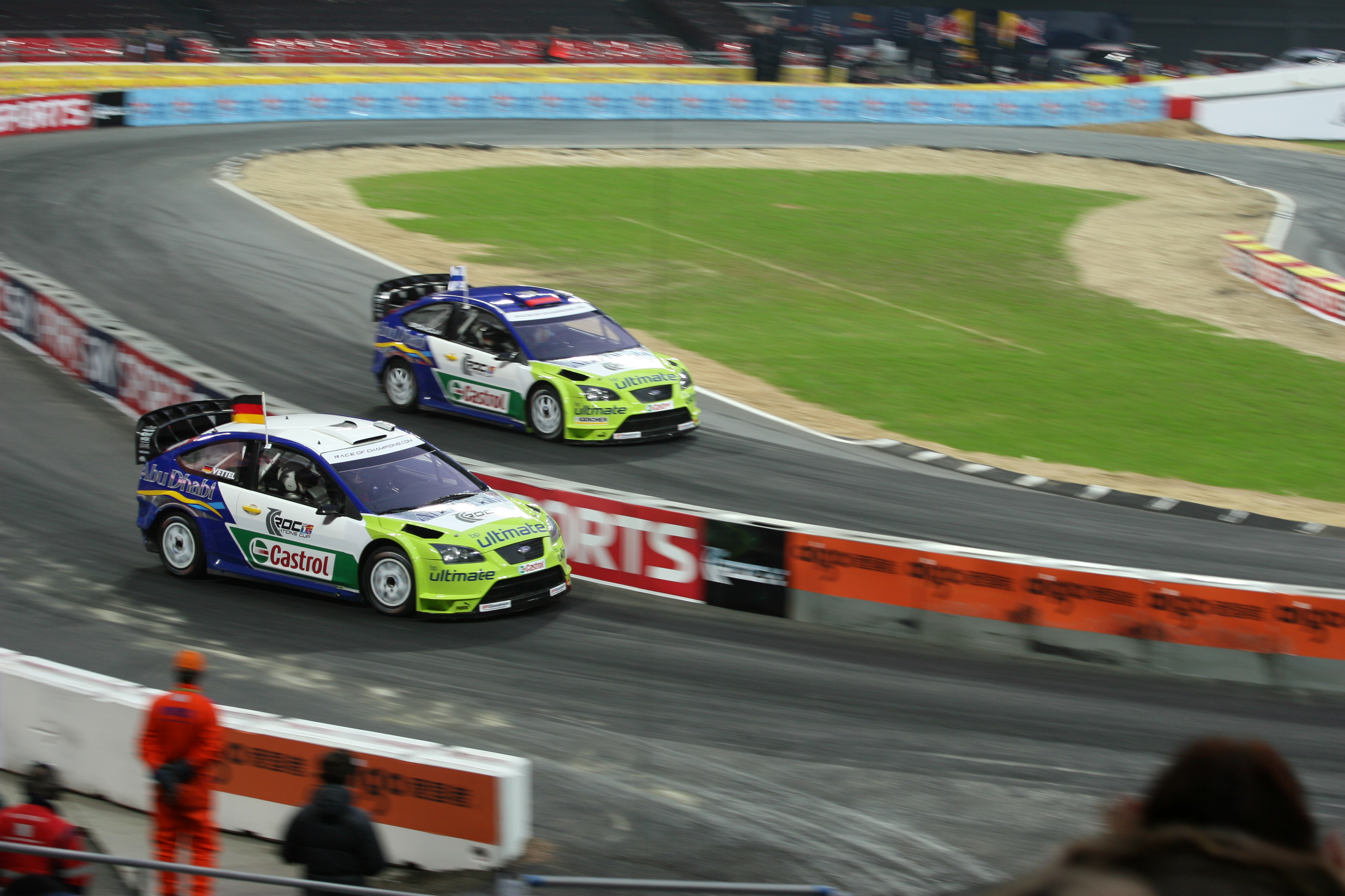 Marcus Grönholm and Sebastian Vettel driving Ford Focus RS WRC 07 rally cars at the 2007 Race of Champions at Wembley Stadium.